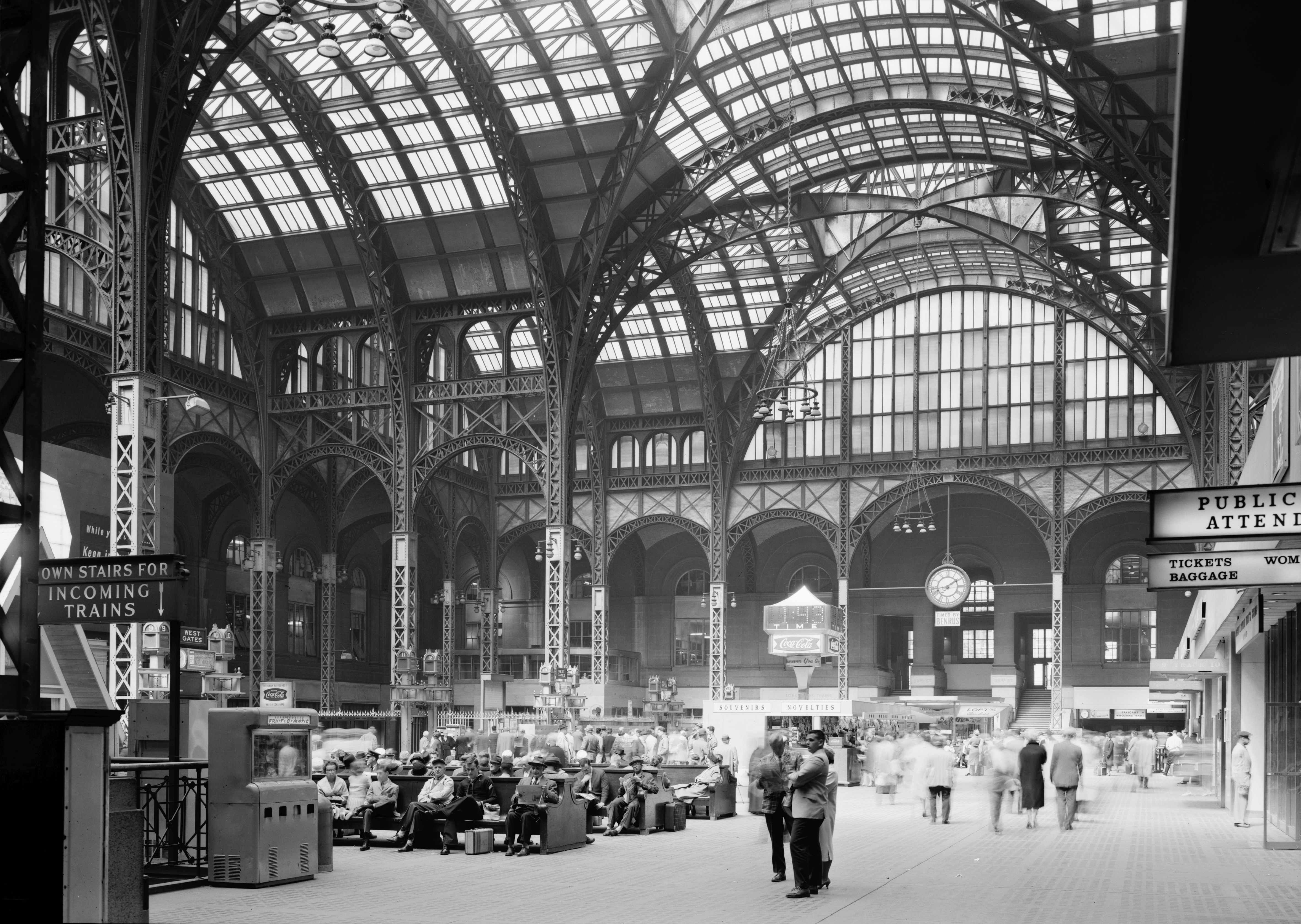 Pennsylvania Station (New York City), Main Concourse interior.